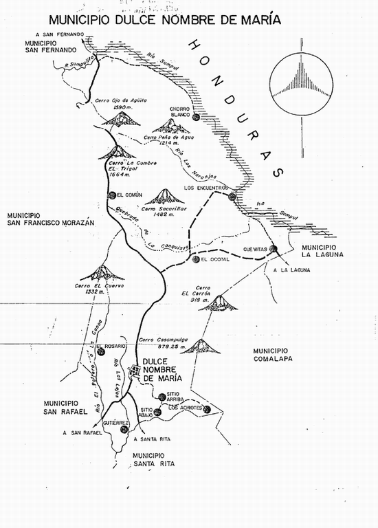 Dulce Nombre de Maria